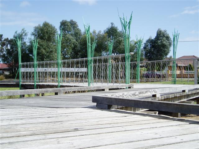 The bridge railing is styled on a fishing net that resembles a Kaurna fishing net woven from bulrush fibres (Mikawomma Reserve, South Australia, Australia).